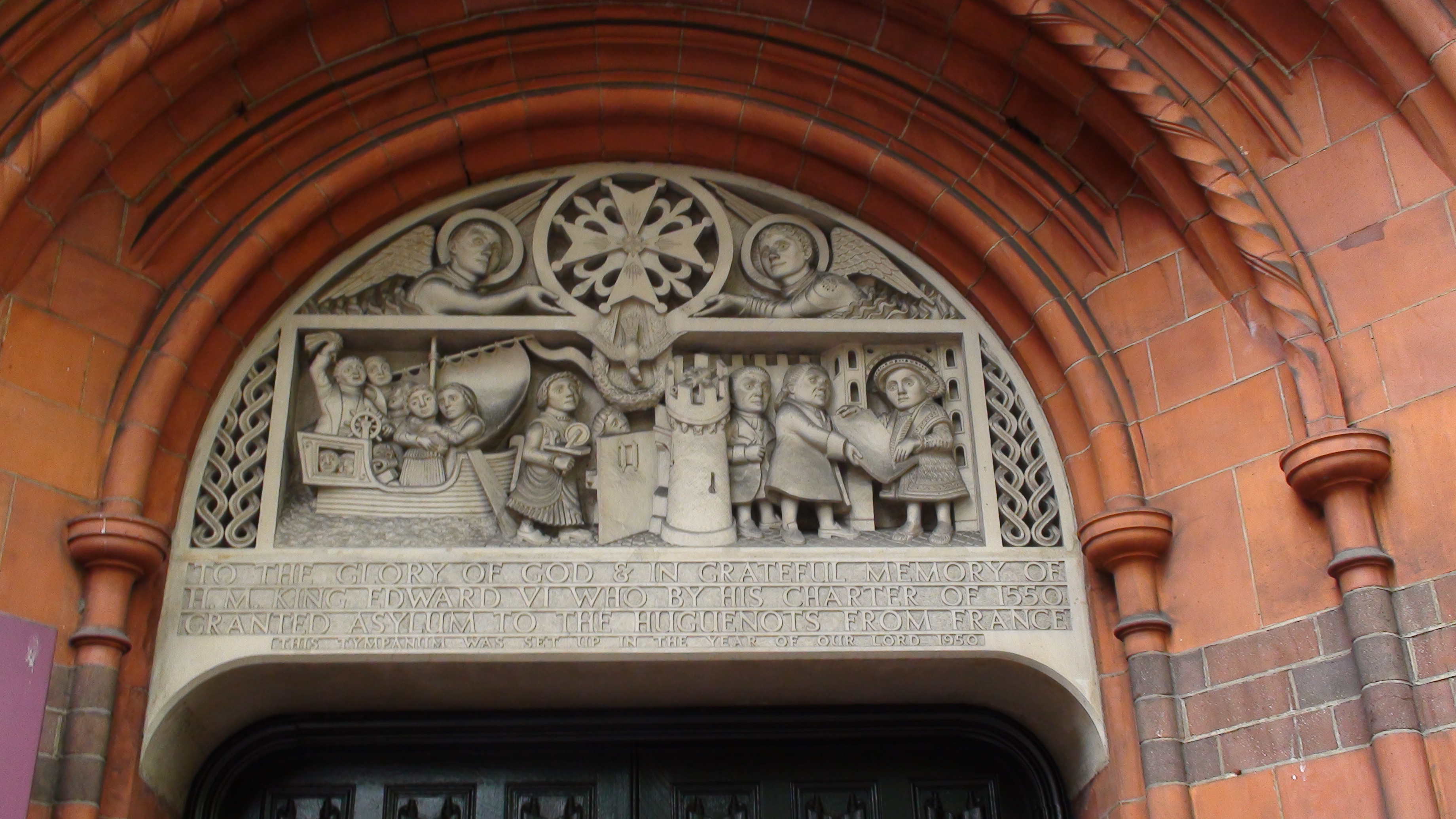 Sculpture above doorway French Protestant Church Soho Square London